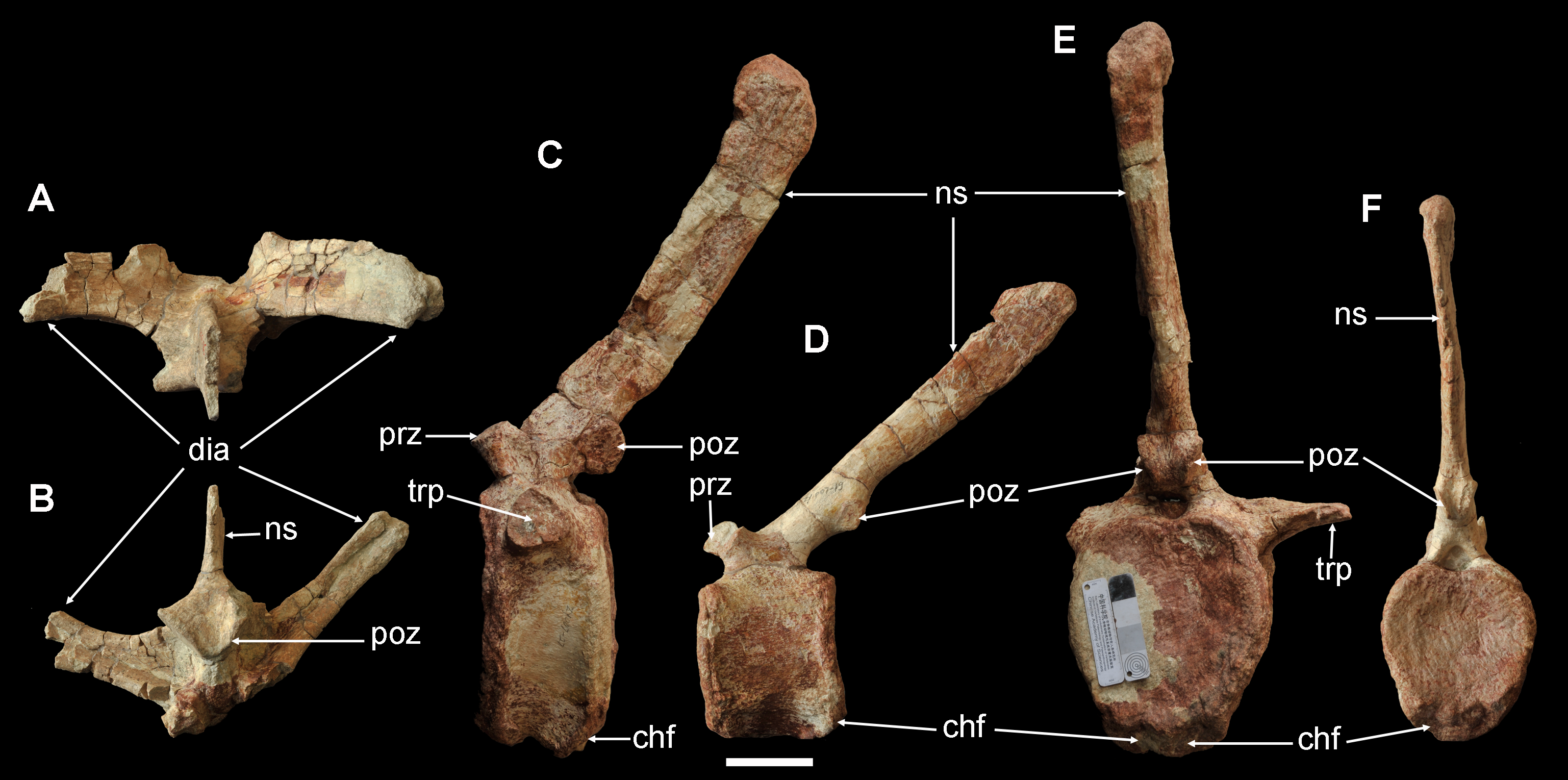 Partial dorsal and two caudal vertebra of Yunganglong datongensis (SXMG V 00001). (A, B)-Partial dorsal neural arch and neural spine in (A) dorsal and (B) caudal views. (C, E)-Proximal caudal in (C) left lateral and (E) caudal views. (D, F)-Middle caudal in (D) left lateral and (F) caudal views. Abbreviations: chf, chevron facet; dia, diapophysis; ns, neural spine; poz, postzygapophysis; prz, prezygapophysis; trp, transverse process. Scale bar = 6 cm.